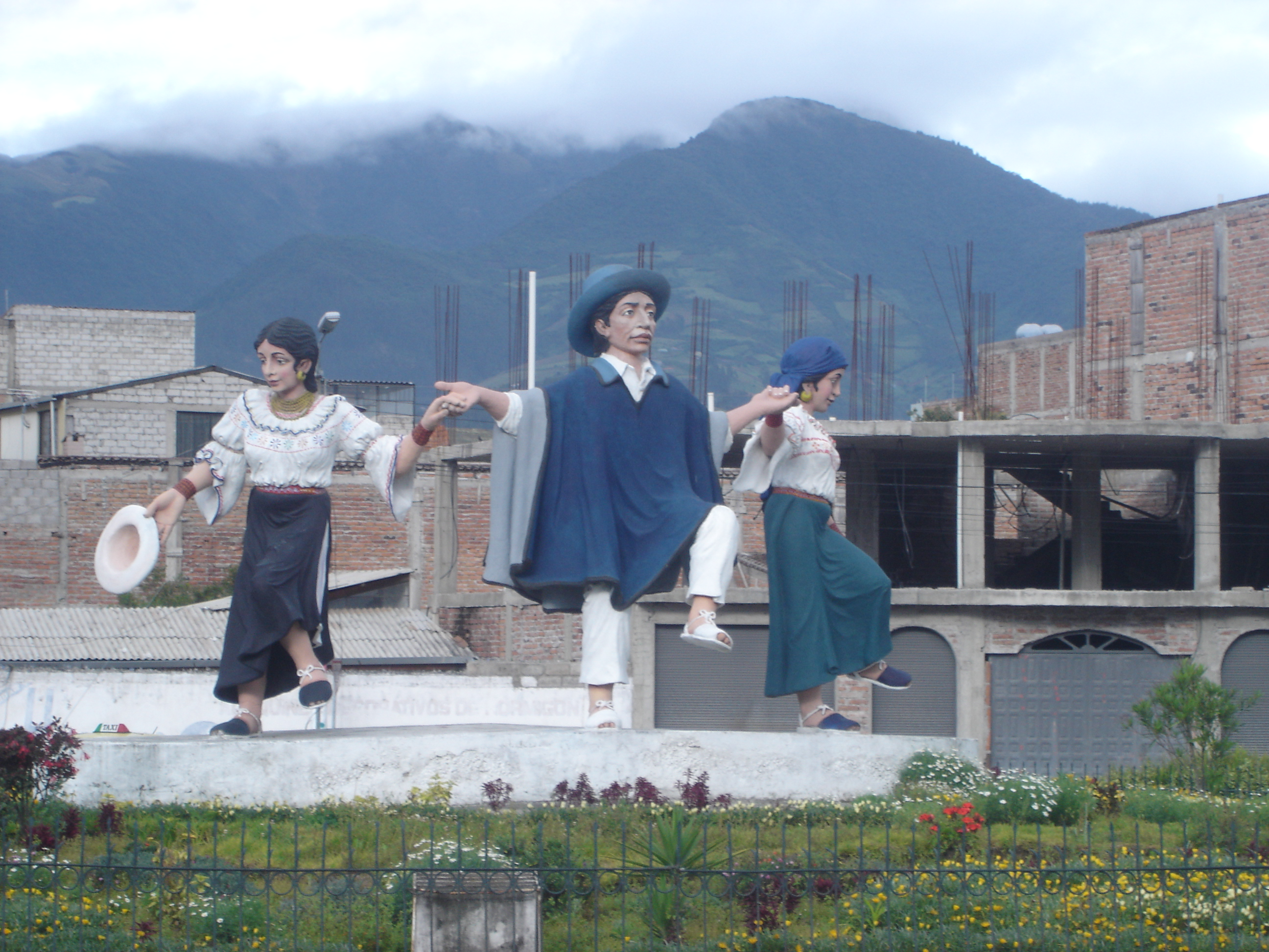 Sculpture representing dancers in traditional costume in Otavalo